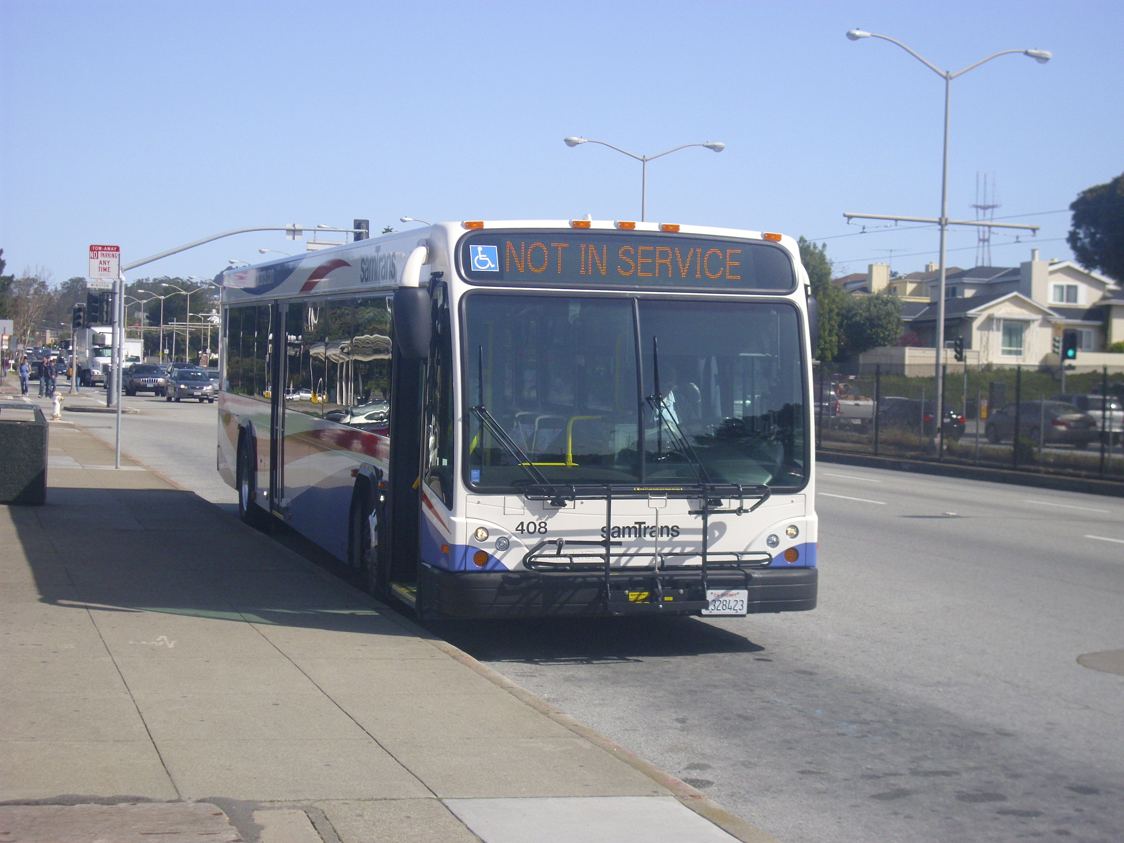 A SamTrans Gillig BRT bus (body number 408) parked near Stonestown Galleria in San Francisco.